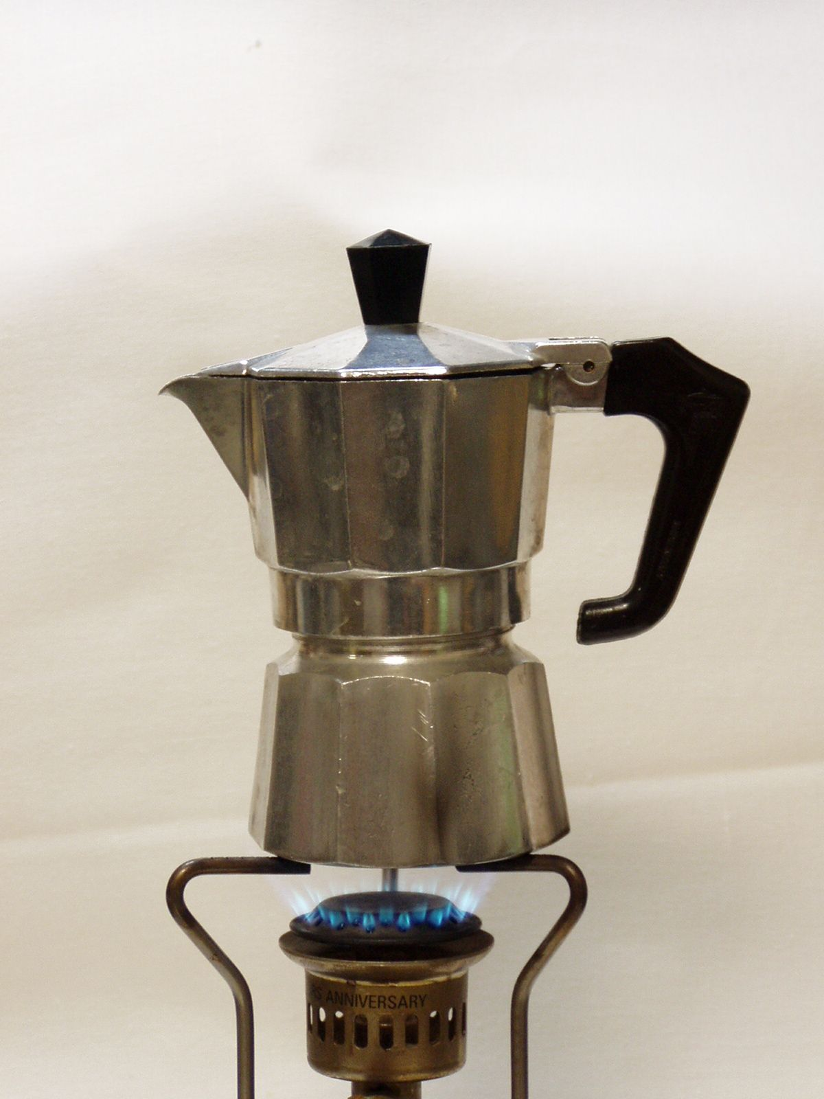 MokaExpress on primus-burner